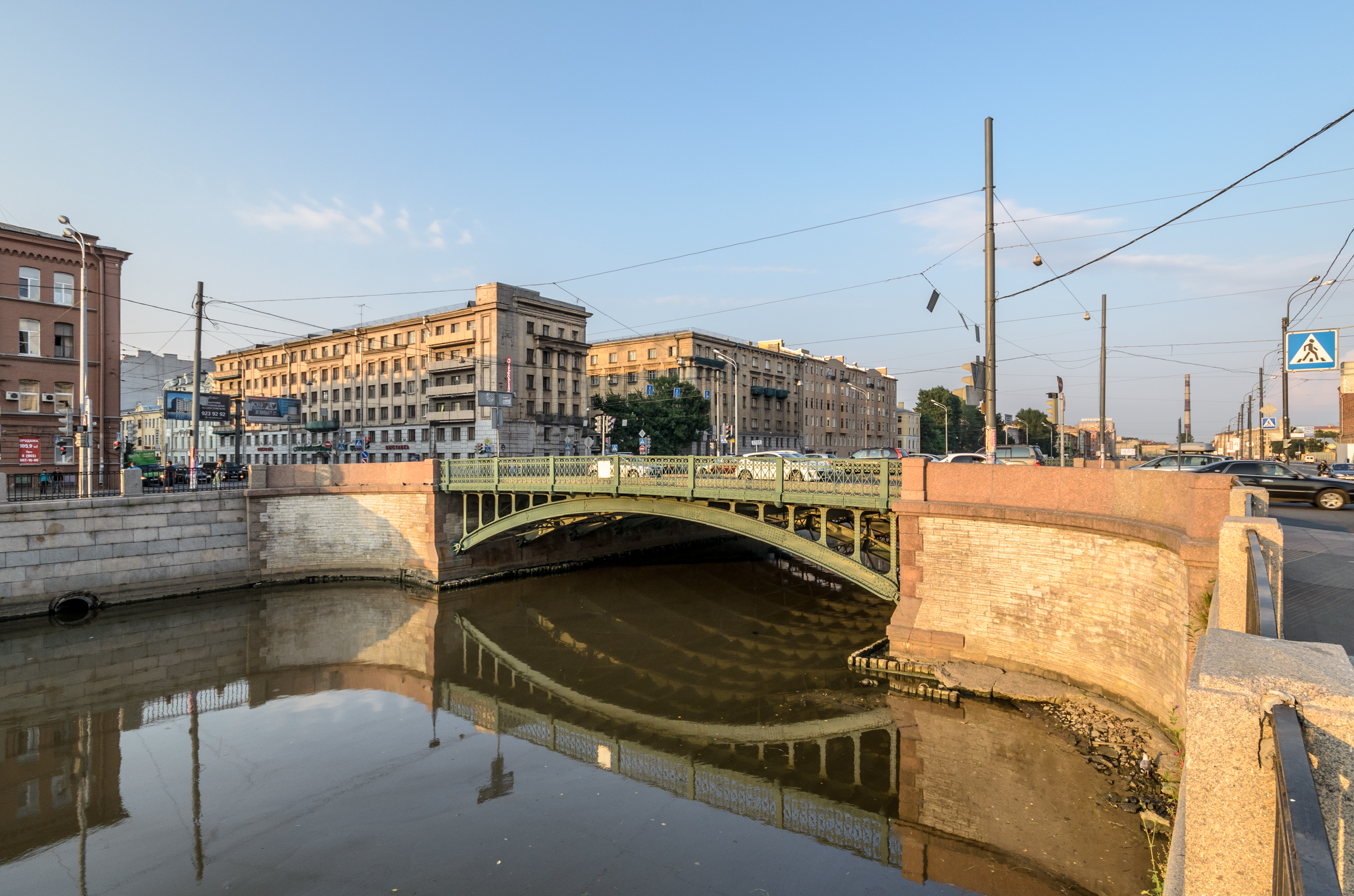 Varshavsky Bridge in Saint Petersburg